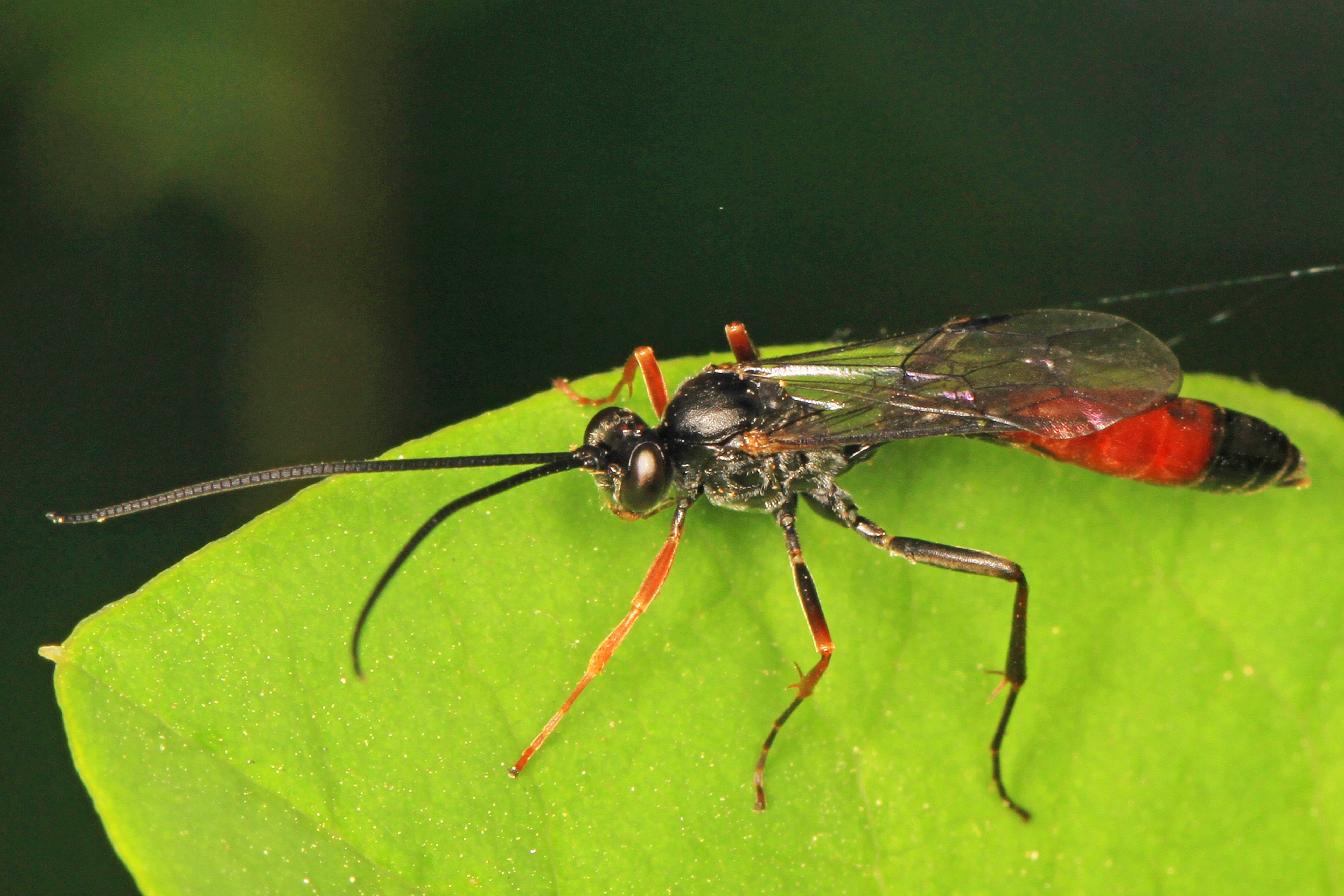 Ichneumon Wasp - Dusona species, Riverbend Park, Great Falls, Virginia